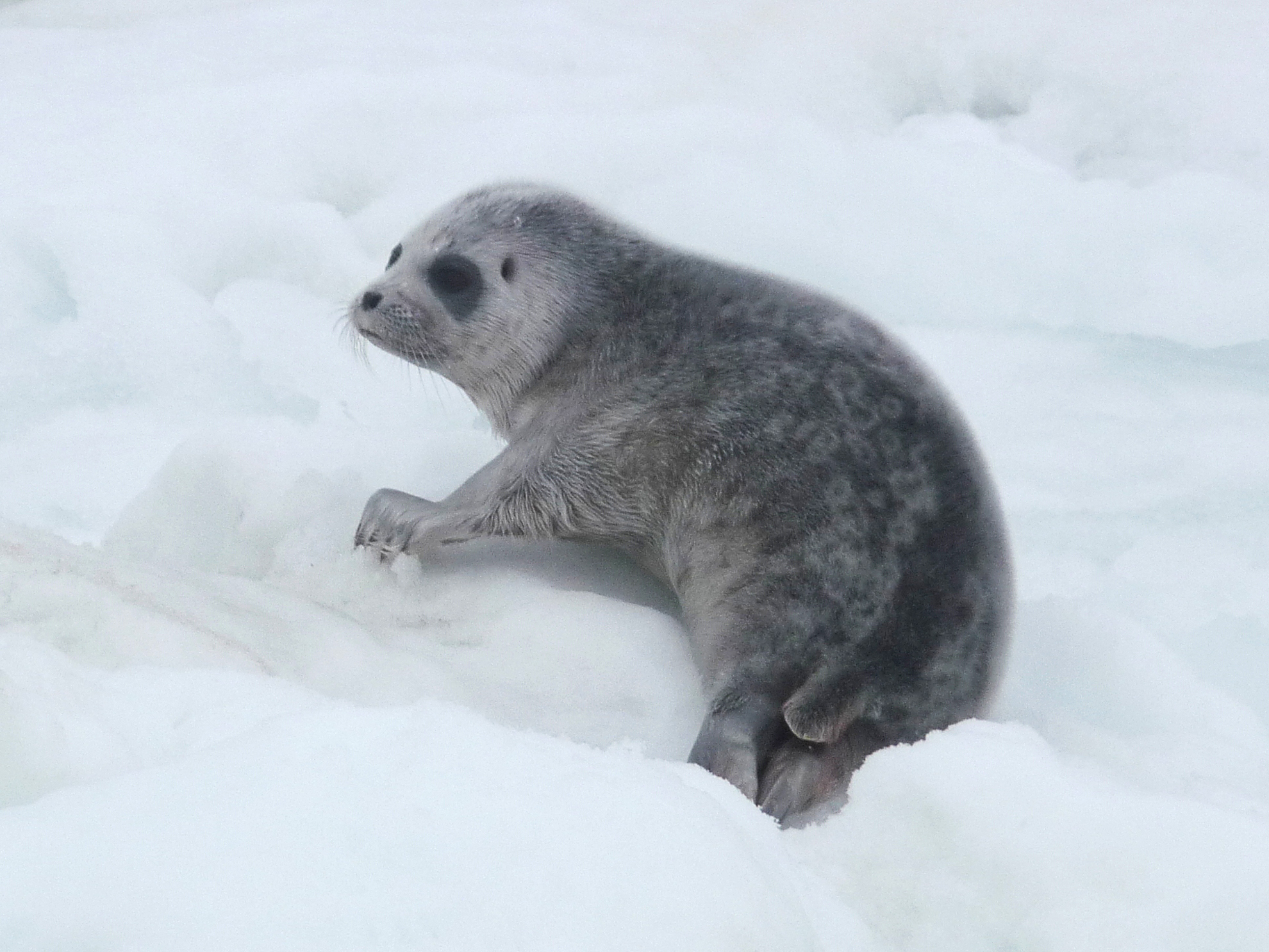 Pup of Pusa hispida, Alaska